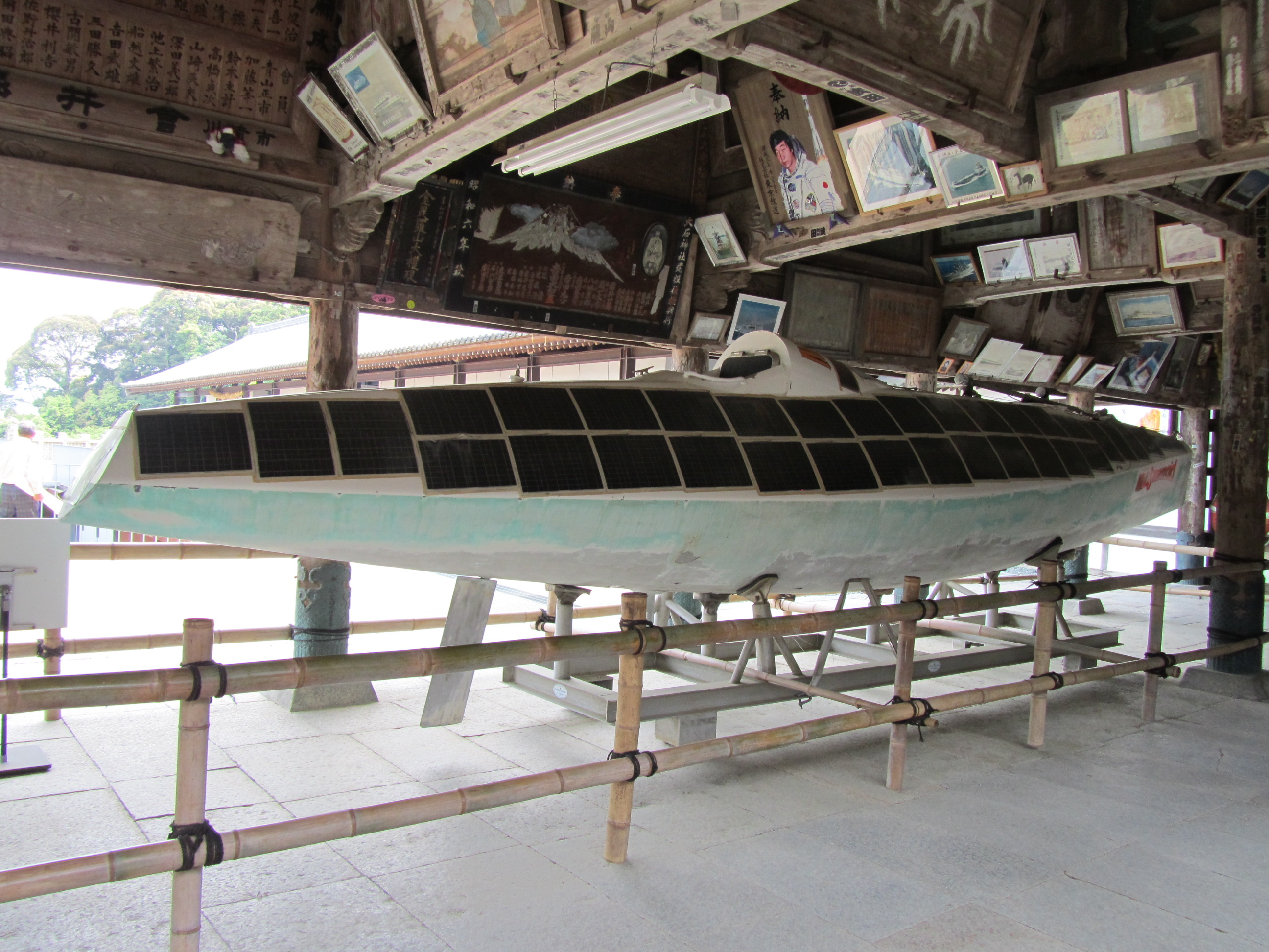 The solar recycled aluminum boat "Malt's Mermaid", piloted by Kenichi Horie, at Kotohira-gu Shrine in Shikoku, Japan.